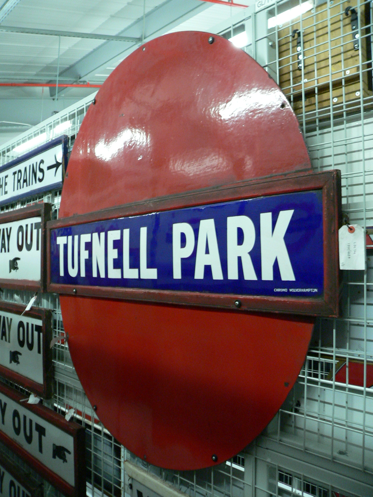 An old London Underground station sign for Tufnell Park preserved at London's Transport Museum.